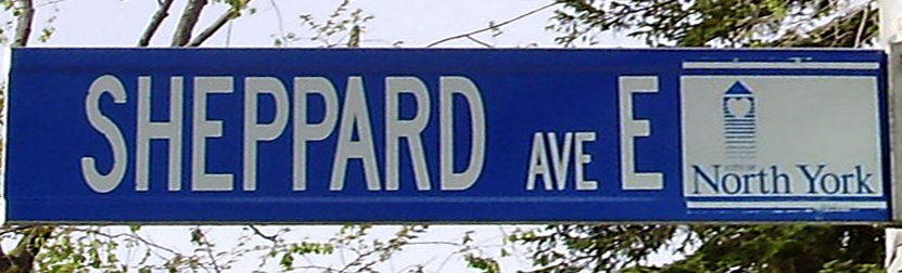 A street sign for Sheppard Avenue East in Toronto, Ontario, retaining the logo of the pre-amalgamation City of North York.